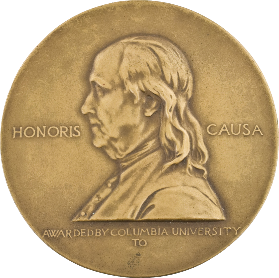 Obverse (front) side of the gold Pulitzer Prize for Public Service medal, which also serves as a symbol of the Pulitzer Prizes in general. It features a profile portrait of Benjamin Franklin with the Latin words "Honoris Causa" (in